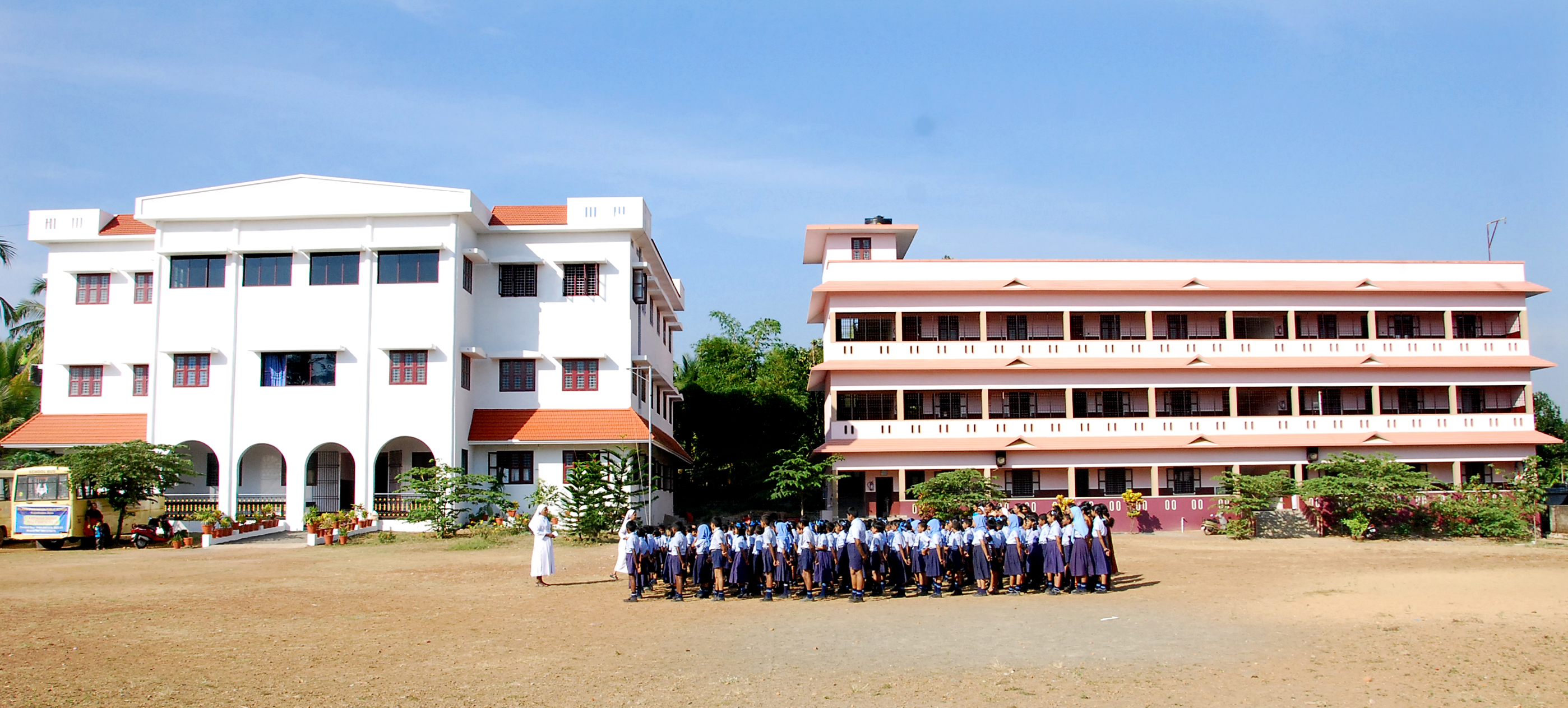 School run by Visitation Congregation, Alapuzha